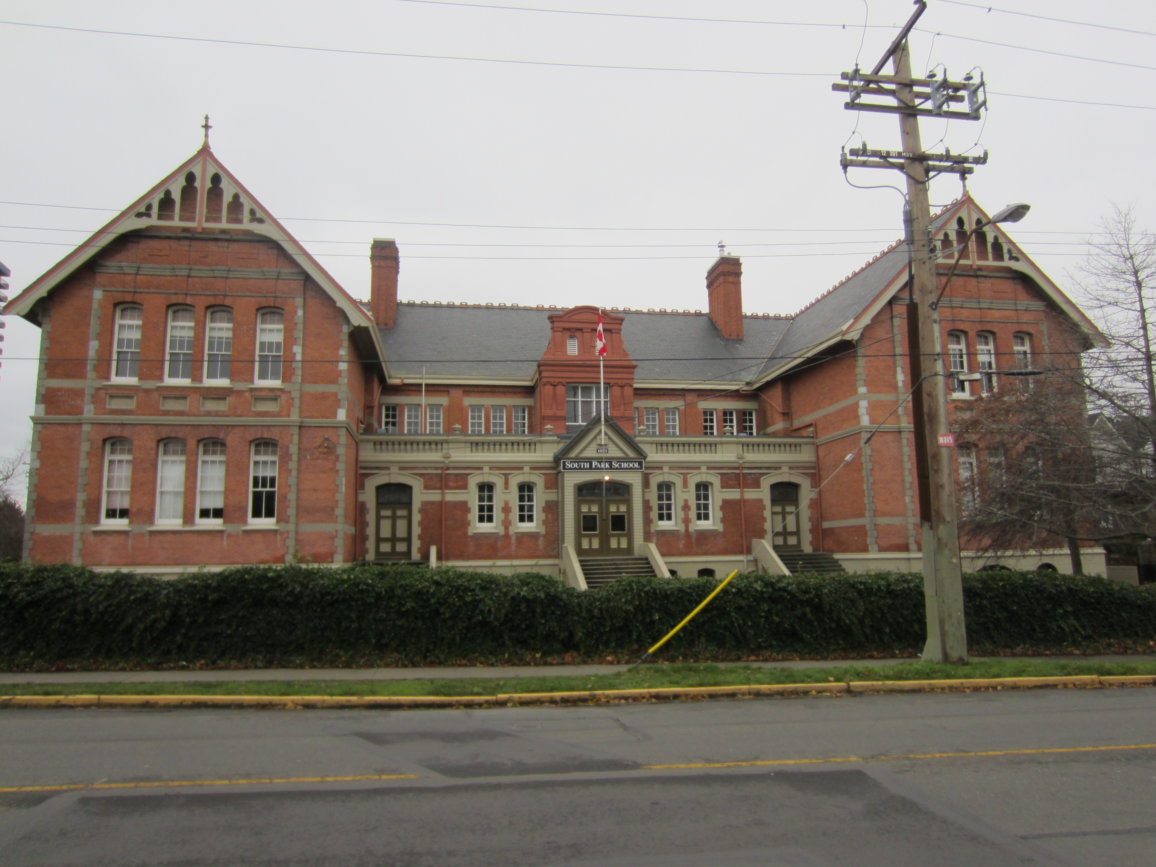 Victoria, British Columbia in December 2012